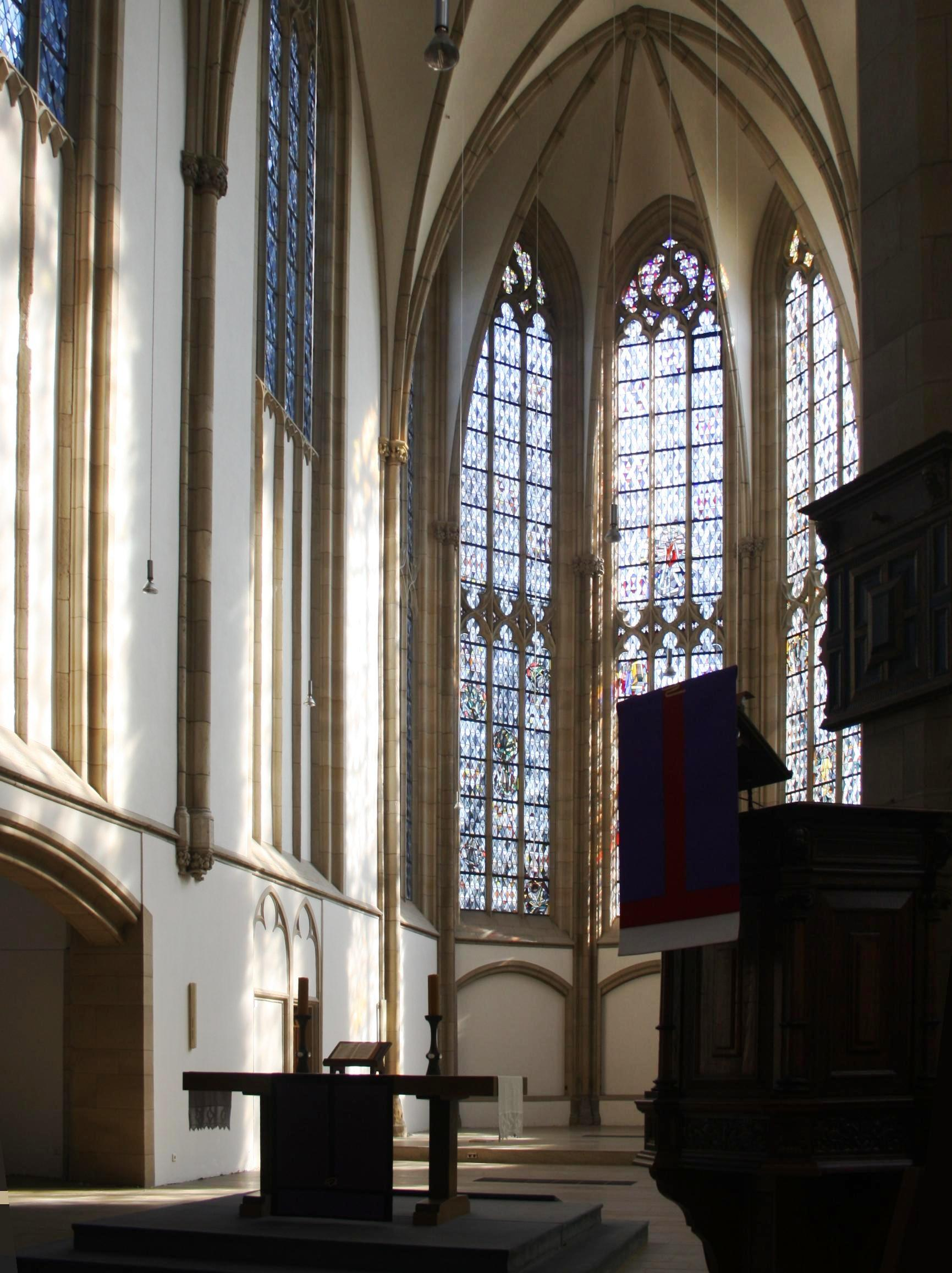 Duisburg, Germany: Church St. Salvator, choir.